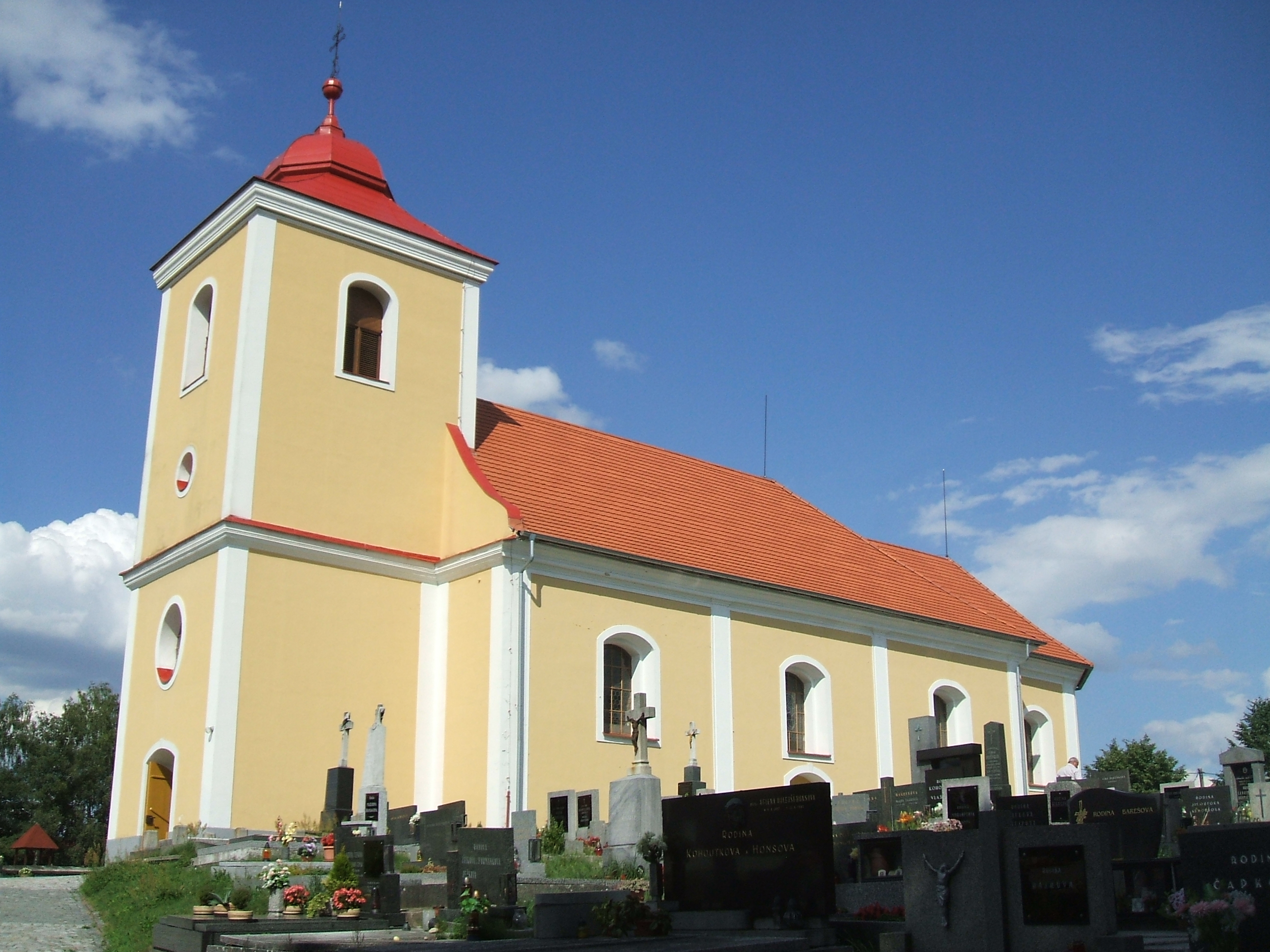 Býšť, Pardubice District, Czech Republic.